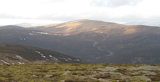 Carn an Fhidhleir Seen from Bràigh Sròn Ghorm, Carn an Fhidhleir is meeting point of Aberdeenshire, Perthshire and Inverness-shire. The surrounding area is the furthest you can get from a tarred public road in Scotland.